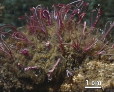 Osedax frankpressi from whale-2893.